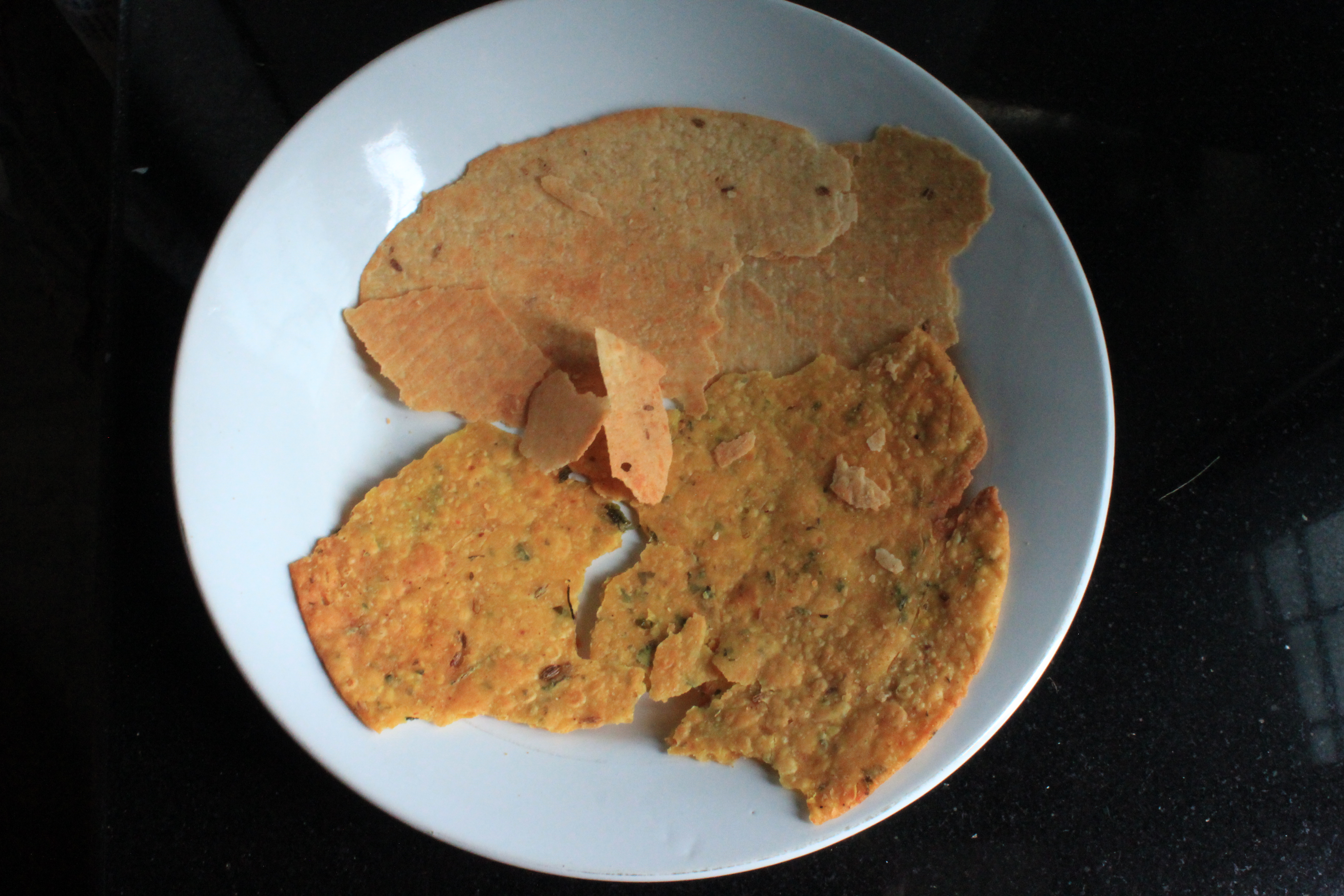 Gujrati snack khakhra